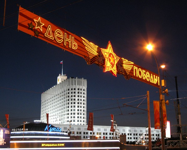 Night illumination for the Victory Day (Den Pobedy) in Moscow, behind the Russian government building White House.